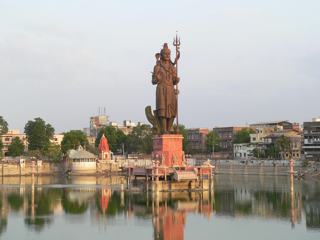 Vadodara